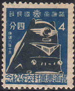 Locomotive for Asia Express South Manchuria Railway.Manchukuo 4-fen stamp.